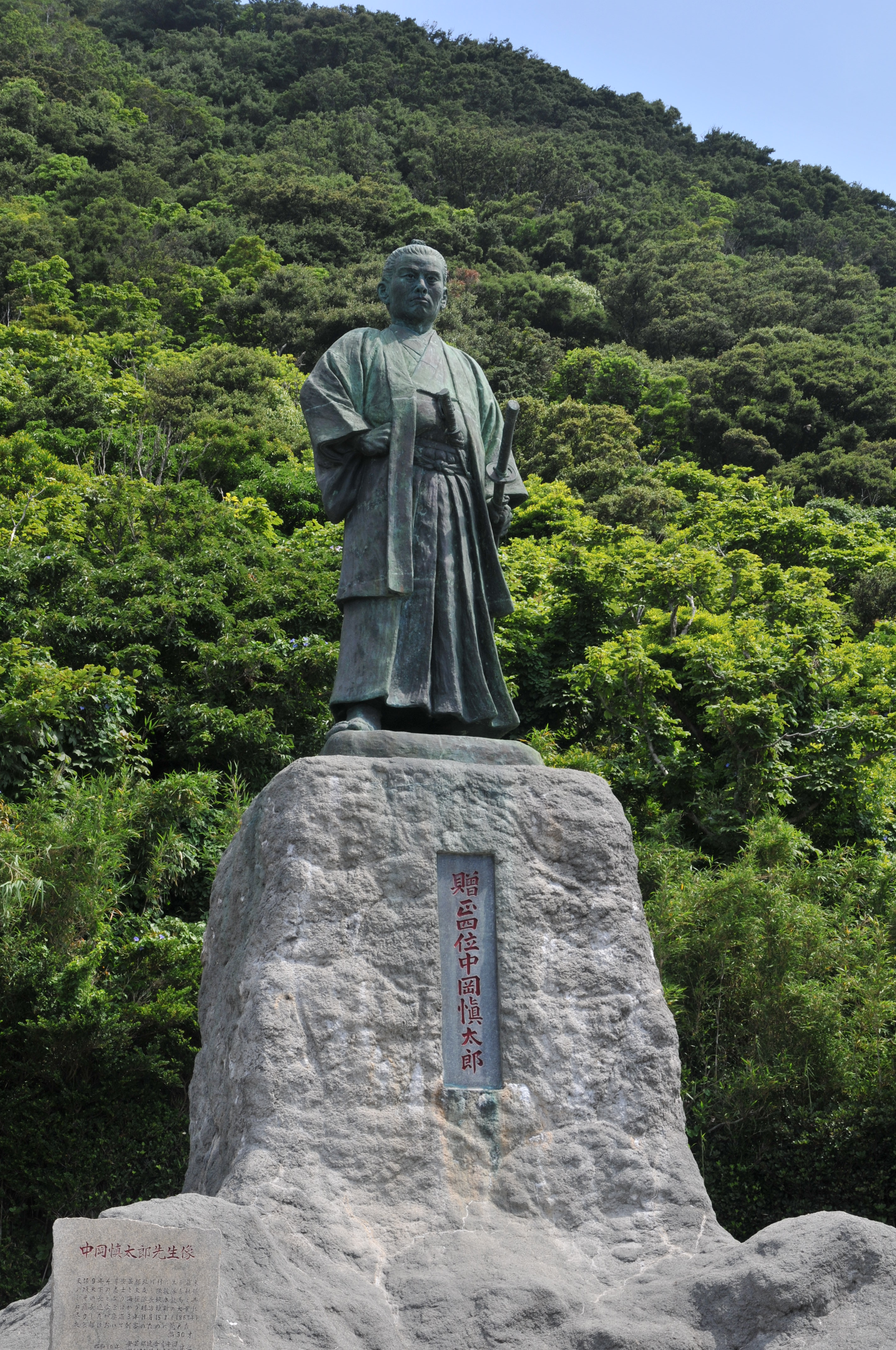 Statue of Nakaoka Shintarō in Cape Muroto